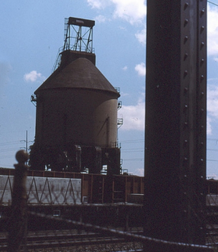 Cedar Hill Coal Tower on Wilton St, New Haven, Connecticut in the abandoned rail yards. Many railroad buffs come to Cedar Hill to see this little piece of history.